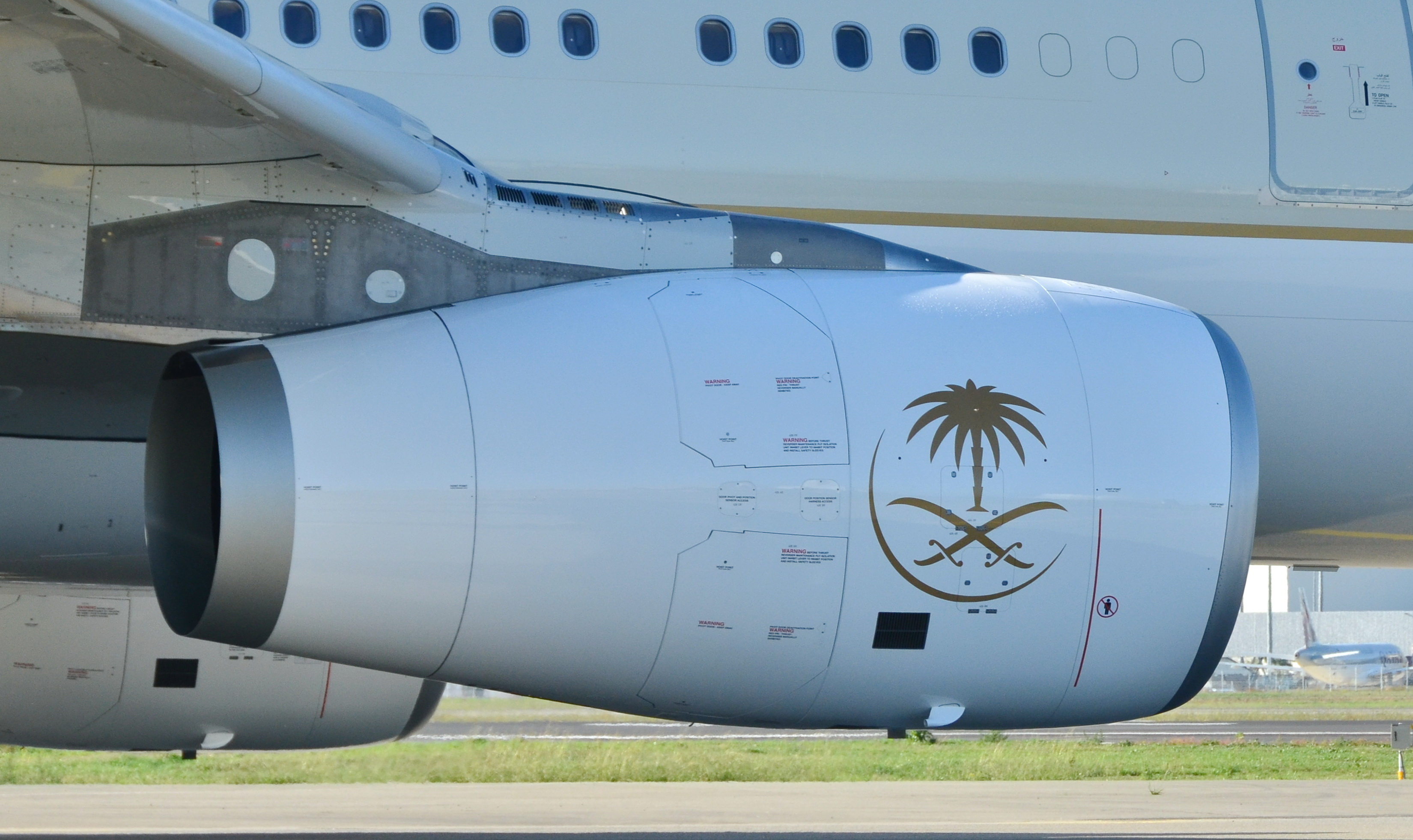 Rolls-Royce Trent 700 installed on a Saudia A330. Picture taken at Toulouse-Blagnac Airport (LFBO) in France.